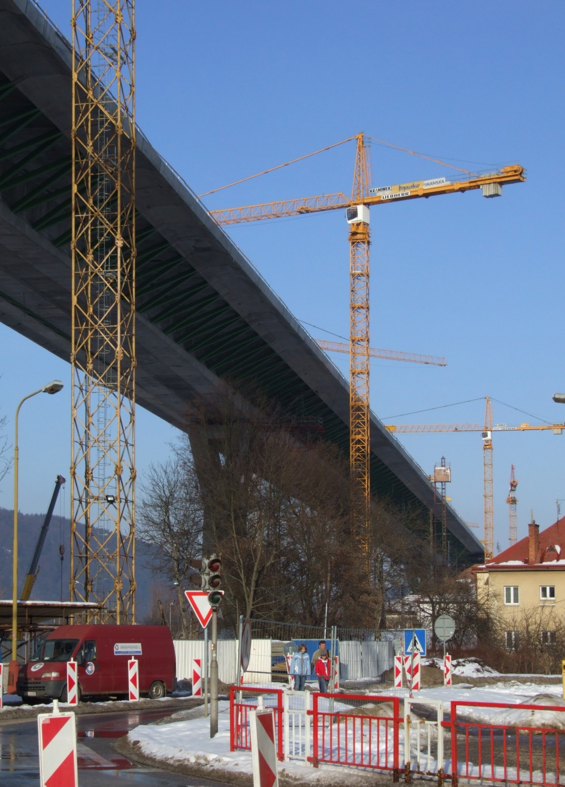 Building a bridge - highway D1, Považská Bystrica